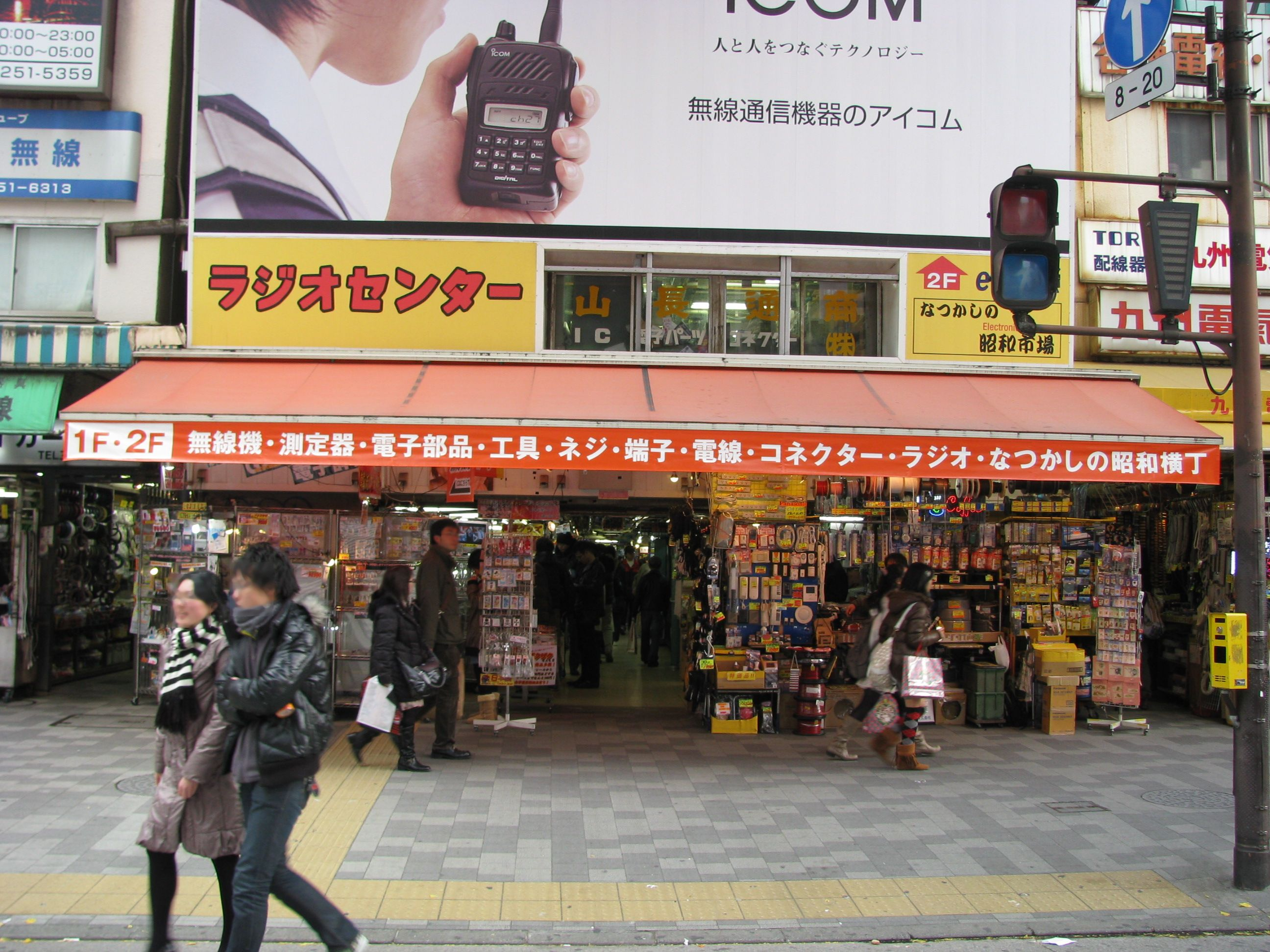 The Akihabara Radio Center in the Akihabara. This location is in Chiyoda, Tokyo, Japan.